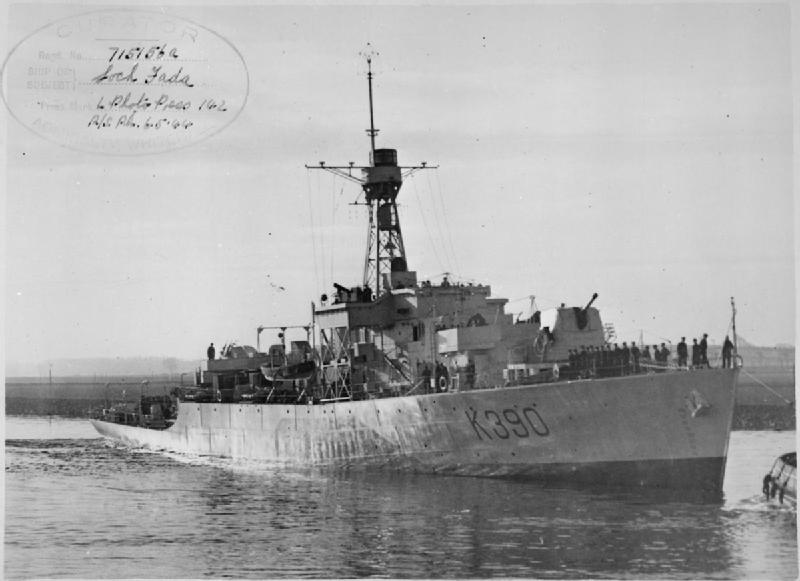 Photograph of British frigate HMS Loch Fada.